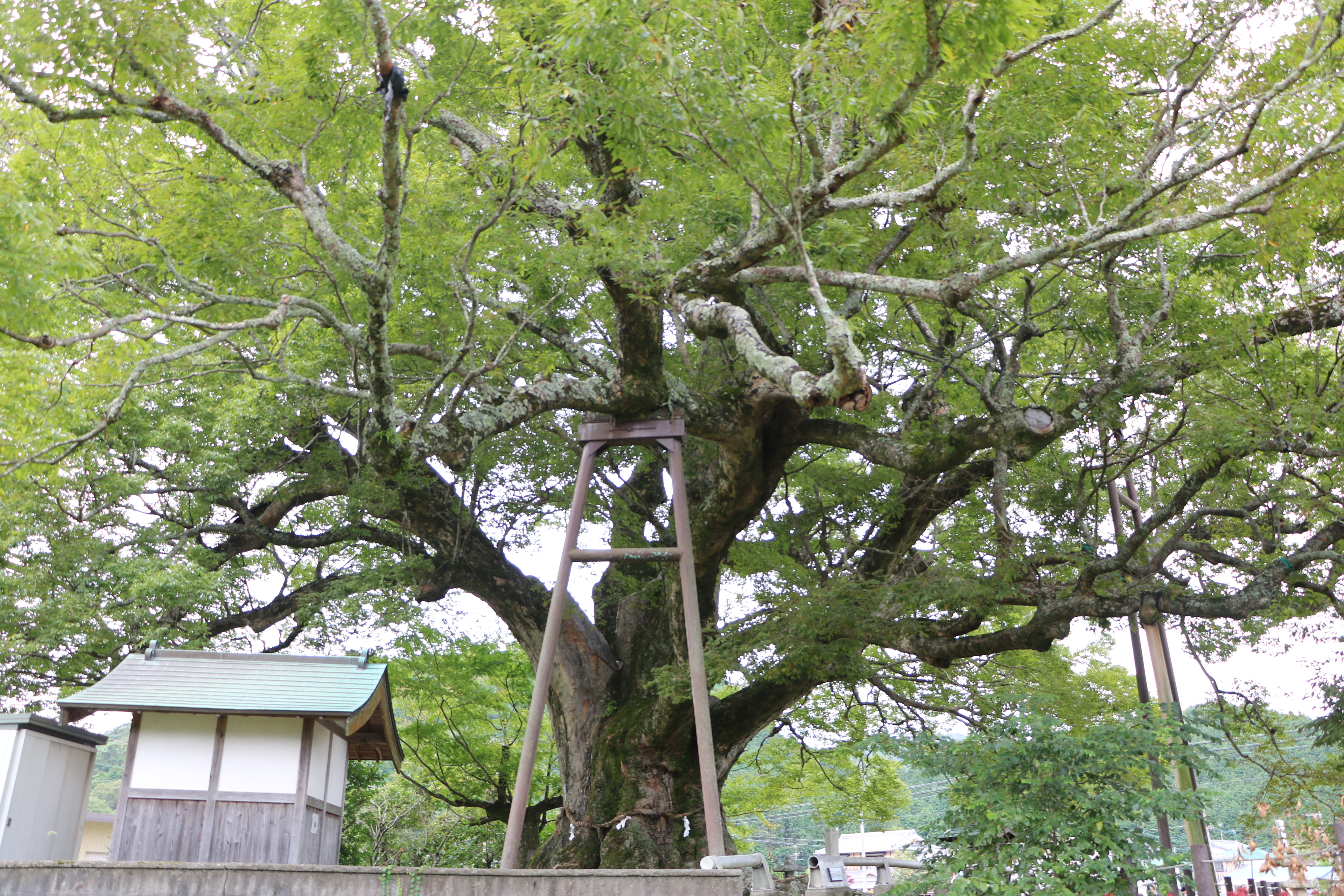 Large zelkova of Noma